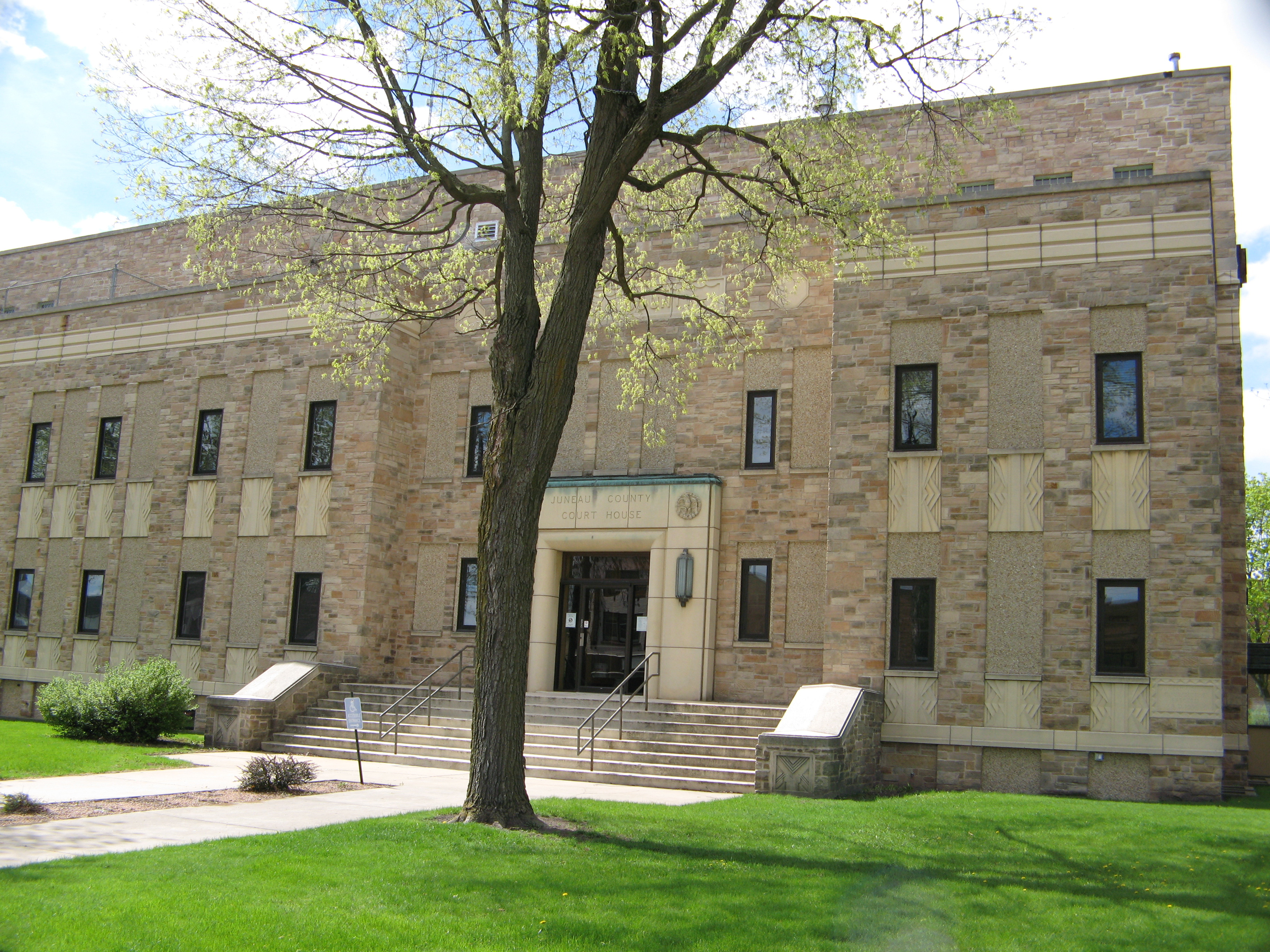 Front view of the Juneau County Courthouse in Mauston, Wisconsin